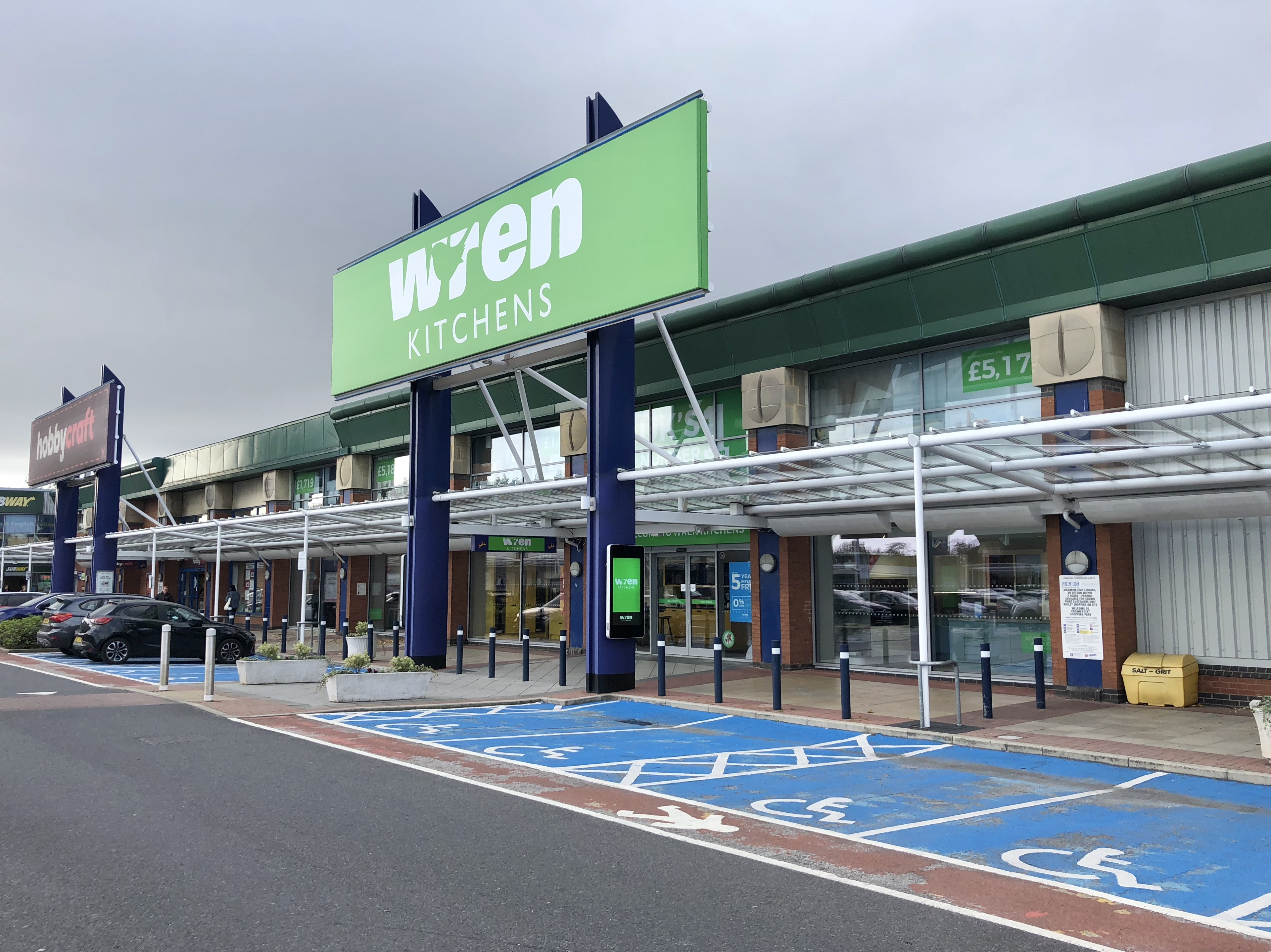 Wren Kitchens showroom, Leeds, Crown Point Shopping Park, 23rd October 2018